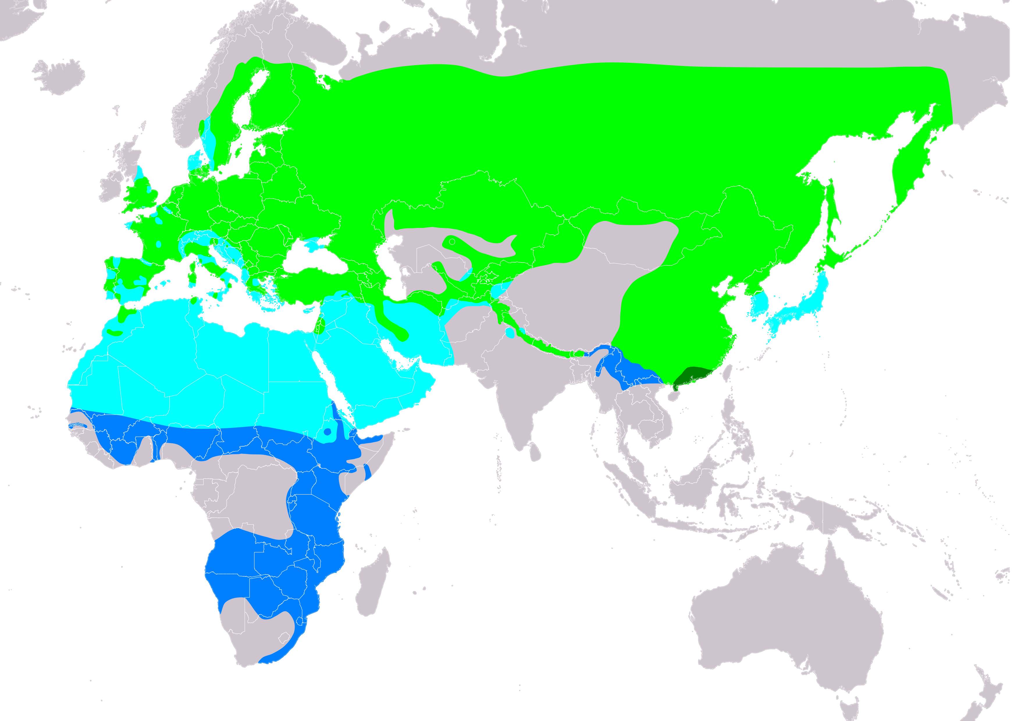 Distribution map of eurasian hobby (Falco subbuteo) according to IUCN version 2019.2 ; key: Legend: Extant, breeding (#00FF00), Extant, resident (#008000), Extant, passage (#00FFFF), Extant, non-breeding (#007FFF)